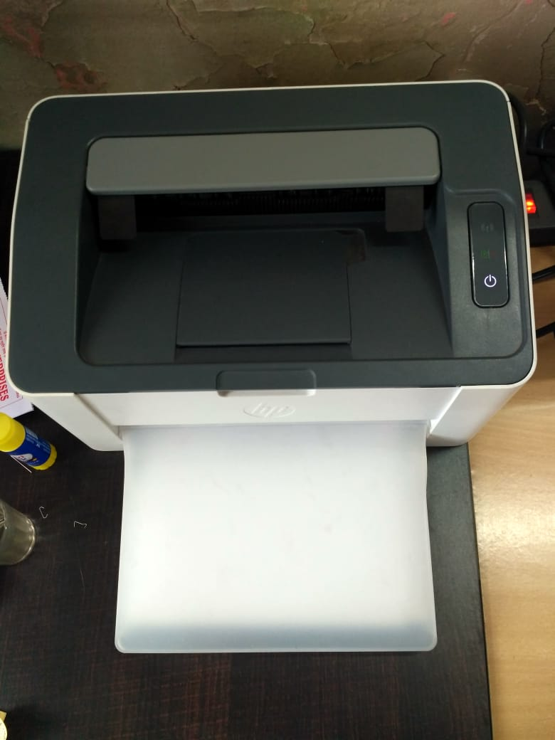 HP printer